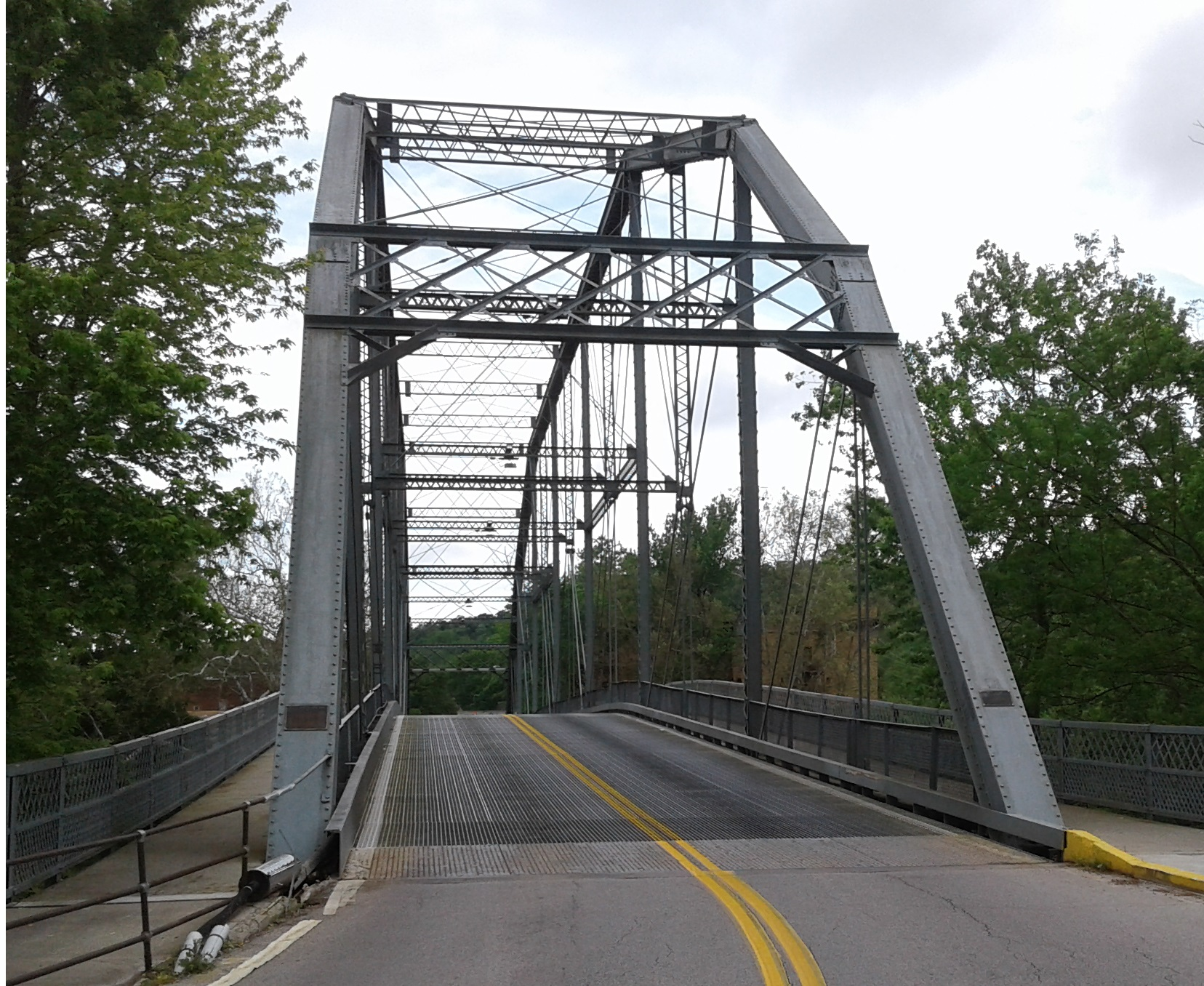 Singing Bridge over the Kentucky River in Frankfort Kentucky USA. Photo taken May 2020.